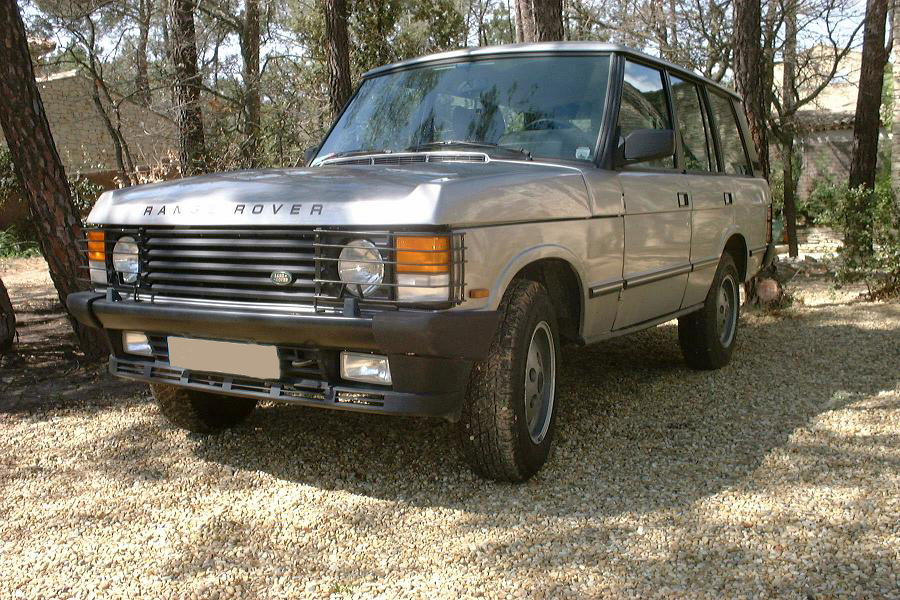 Range Rover Classic V8 1988